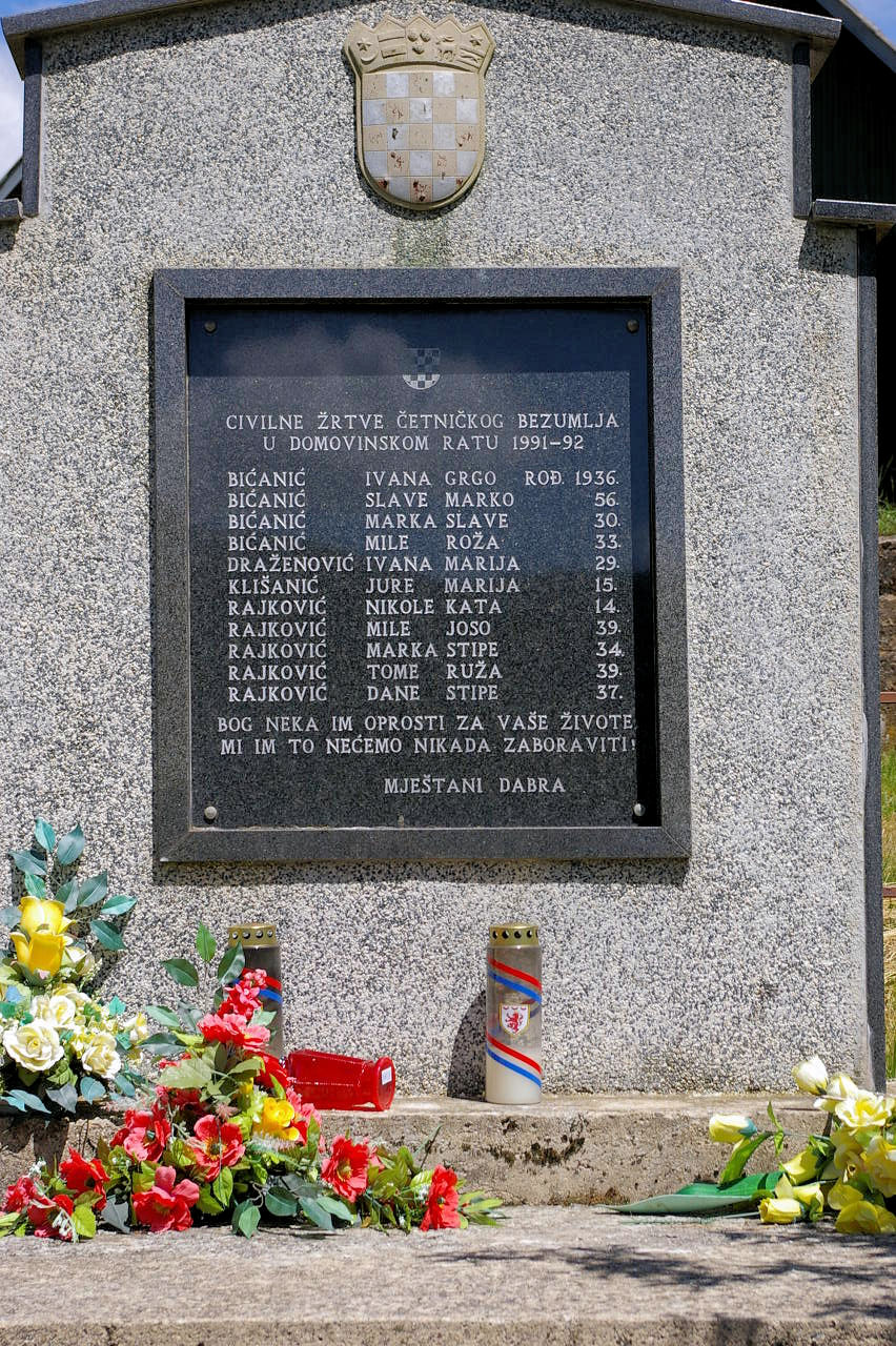 Monument to victims of the massacre at Dabar, the war in Croatia.